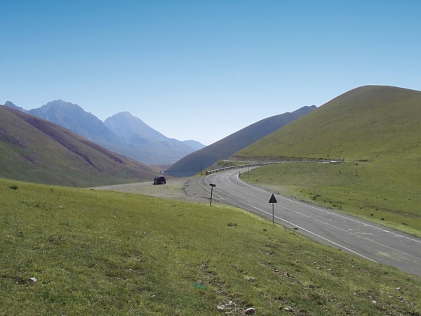 Sella di Monte Cristo with Monte Camicia e Monte Prena in the background